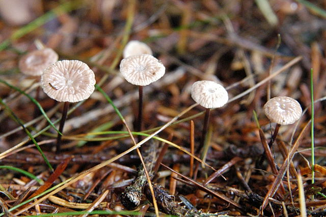 Micromphale perforans from Commanster, Belgium. The determination of the species shown in this picture has been verified.